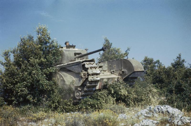 A Churchill tank of 51st Royal Tank Regiment, moving through the undergrowth during an advance across the Italian countryside.